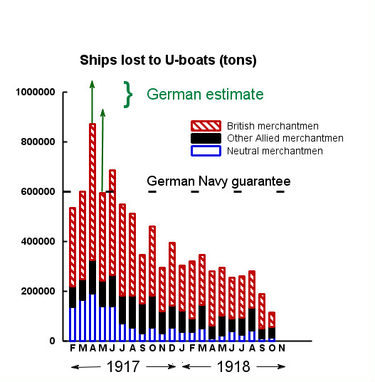 Tons of British and neutral shipping lost in 1917 and 1918, showing failure of unrestricted U-boat warfare